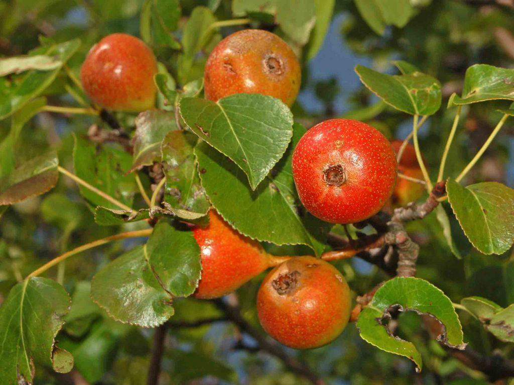 Pyrus pyraster - Parco dell'Antola, Genova, Italy